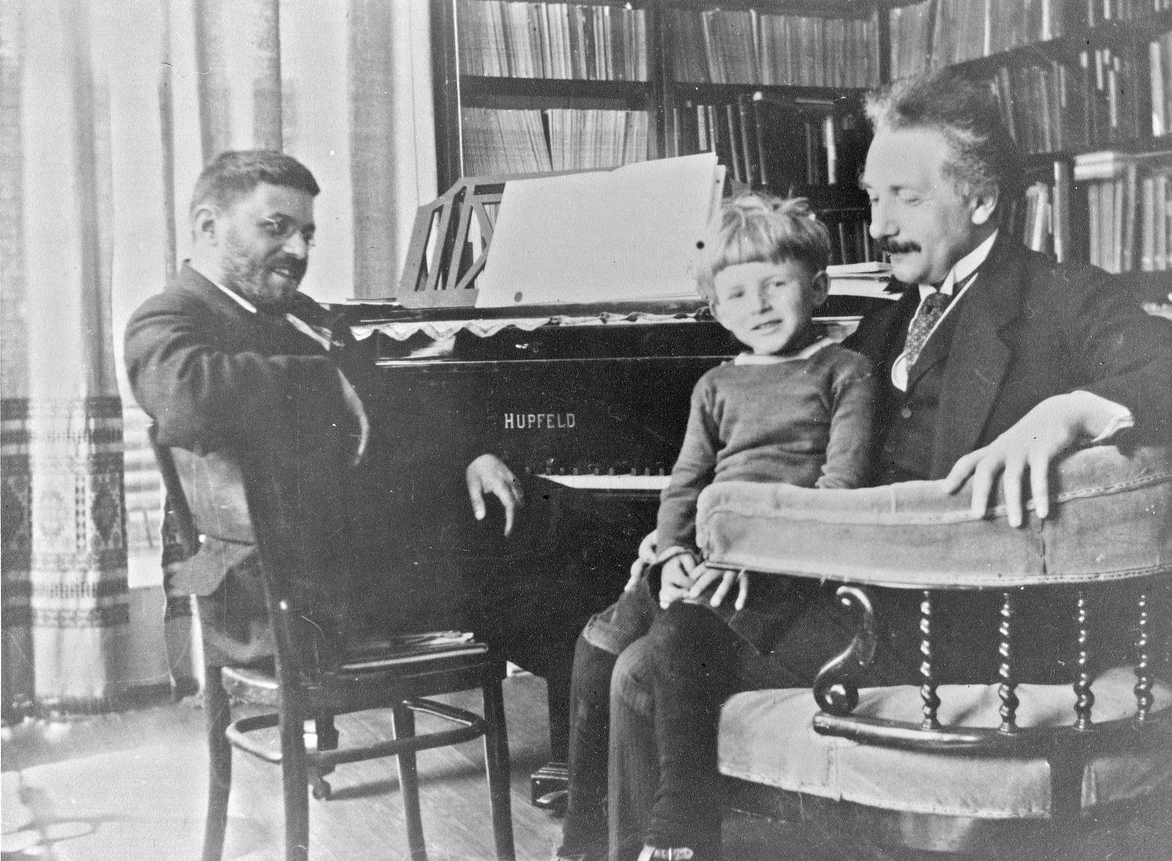 Einstein at the home of Leiden physics professor Paul Ehrenfest, June 1920. On his lap is Paul Ehrenfest, Jr.. People on the picture from left to right: Ehrenfest, Paul; Paul, Jr. ('Pavlik') (1915–1939) Albert Einstein